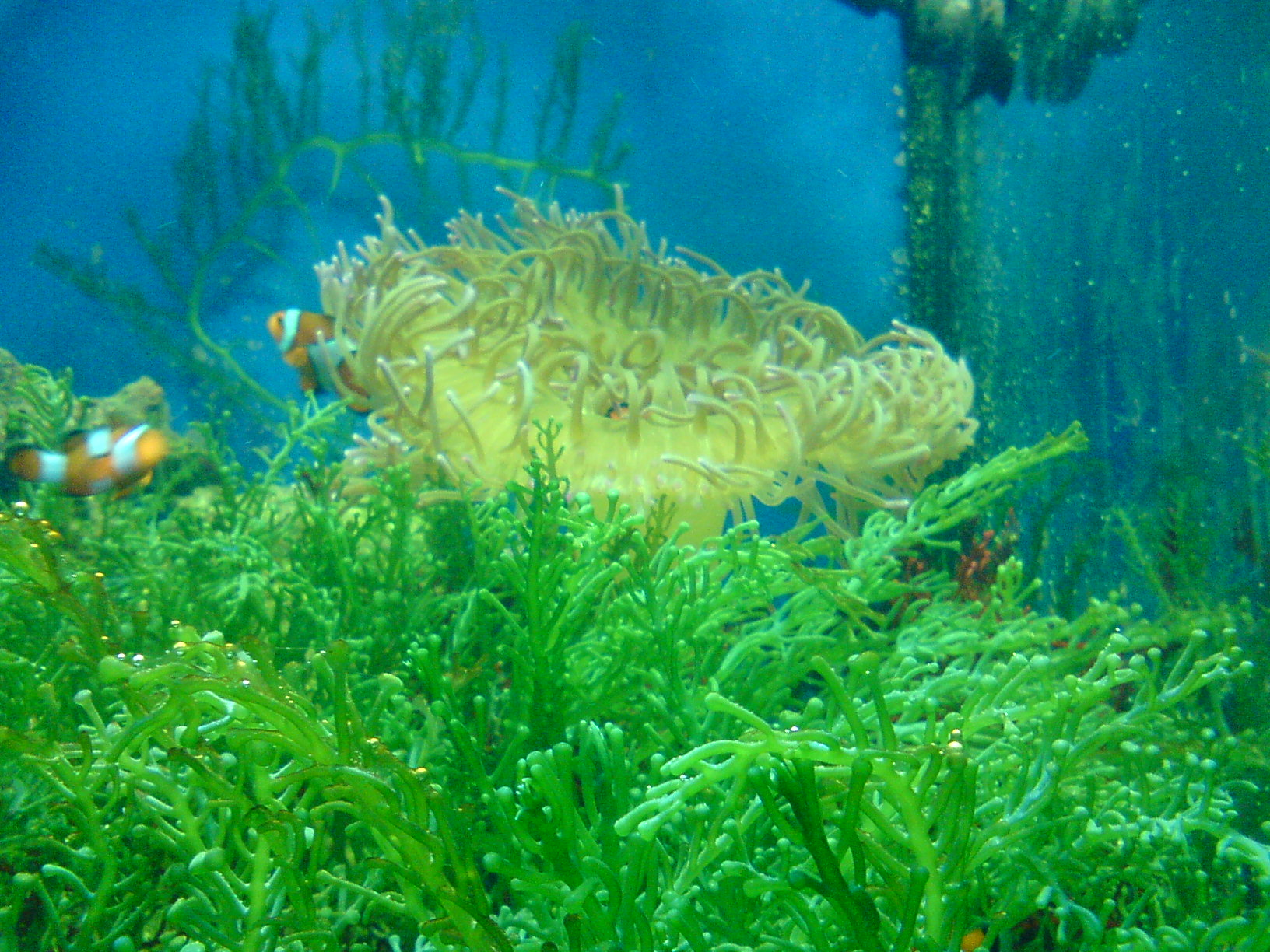 Sea anemone in Manufaktura in Łódz